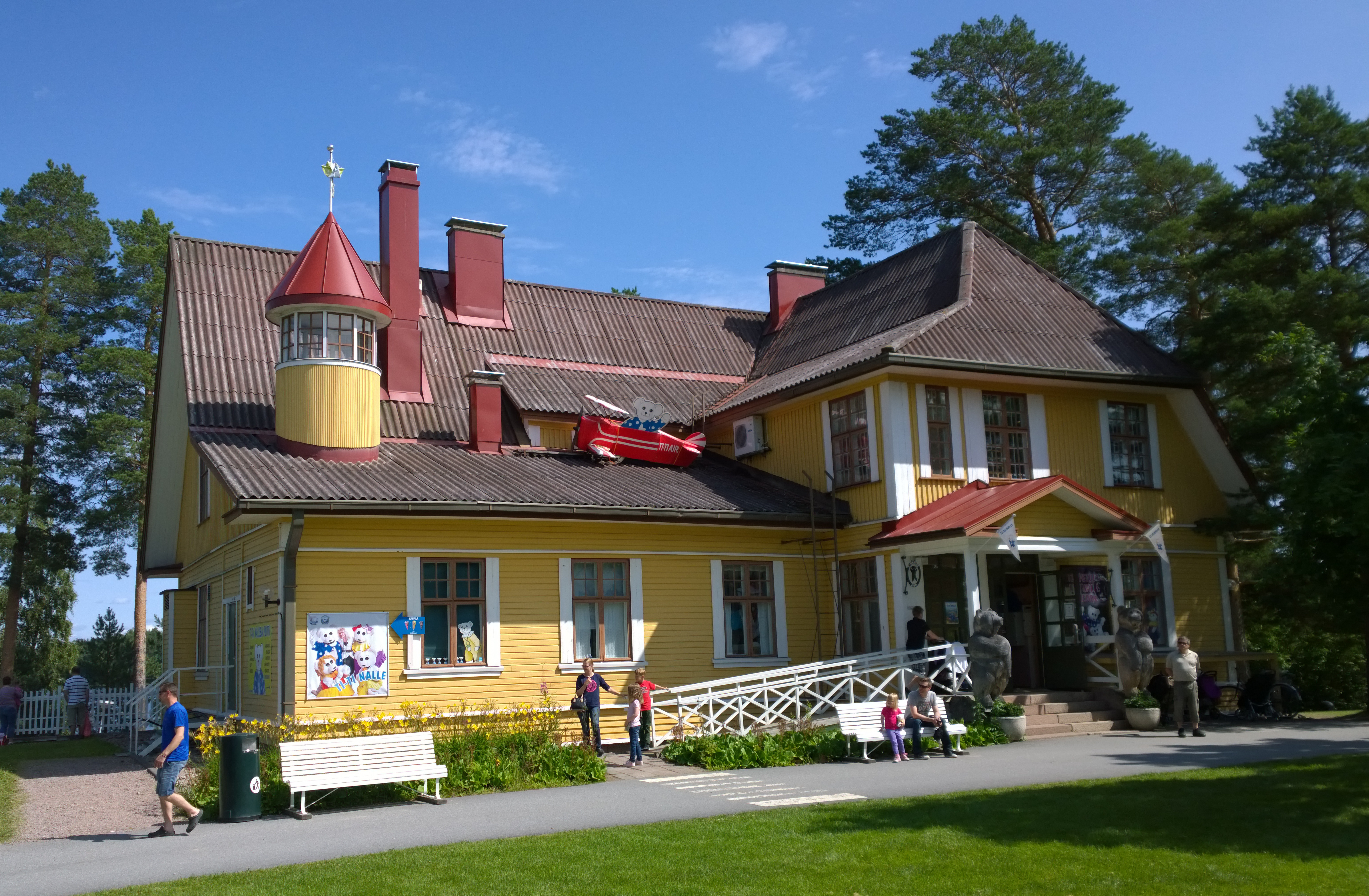 The house of Ti-Ti nalle